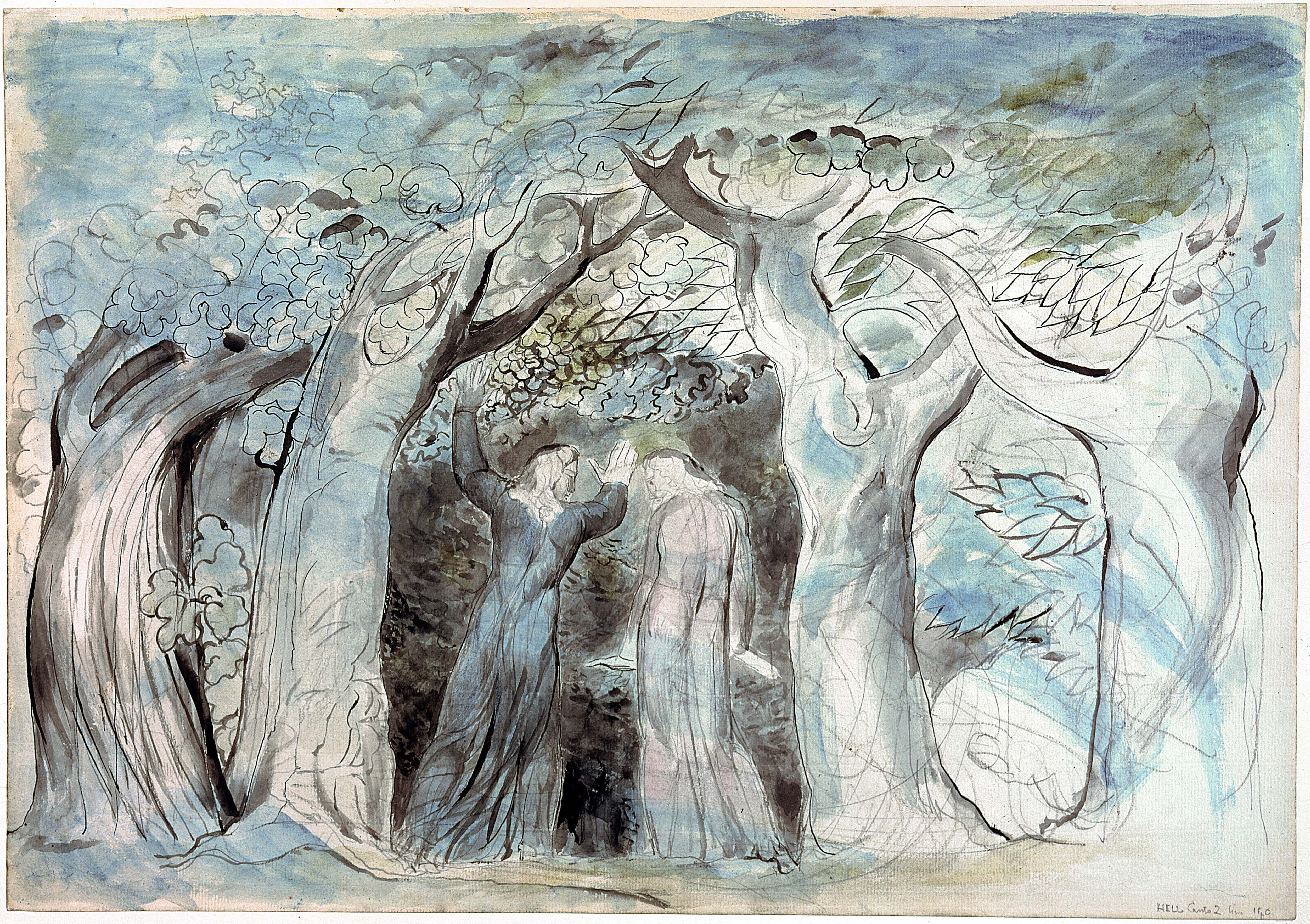 Illustrations to Dante's Divine Comedy object 3 Butlin 812-2 Dante and Virgil Penetrating the Forest